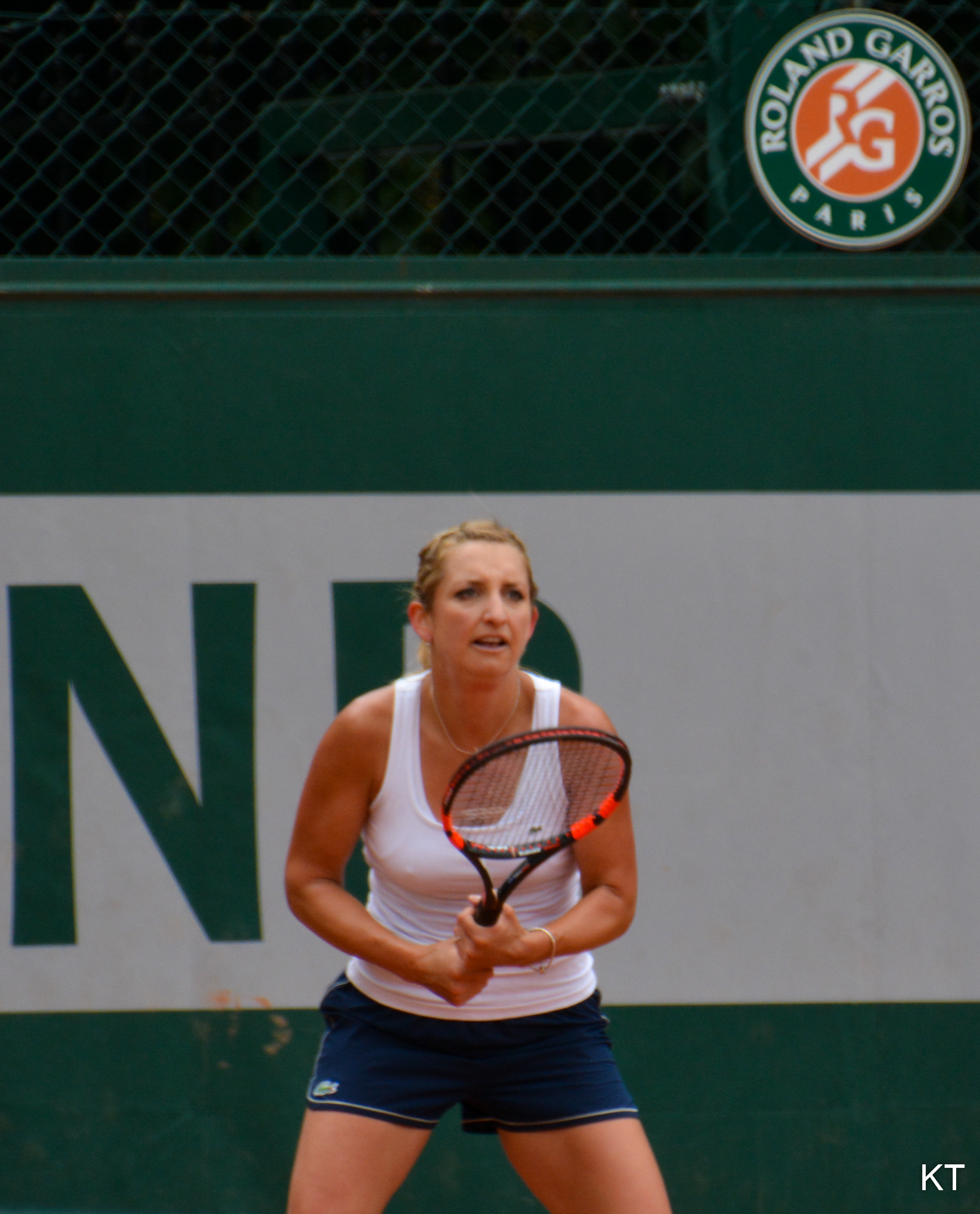 On the practice court. Day 3 of Roland Garros 2015. 2015 Roland Garros.